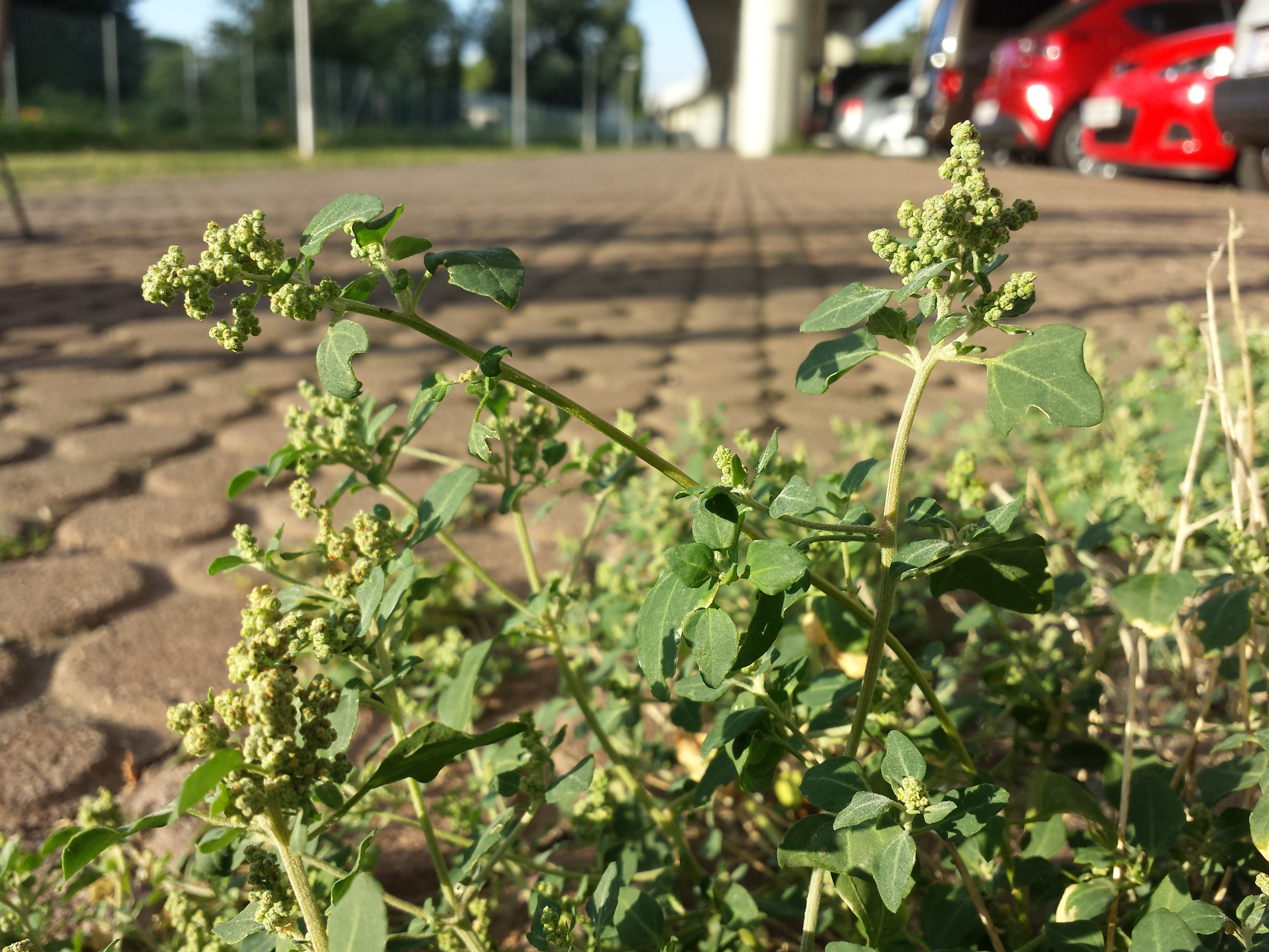 Habitus Taxonym: Chenopodium vulvaria ss Fischer et al. EfÖLS 2008 ISBN 978-3-85474-187-9 Location: Kagran, Vienna-Donaustadt - ca. 160 m a.s.l. Habitat: wall base